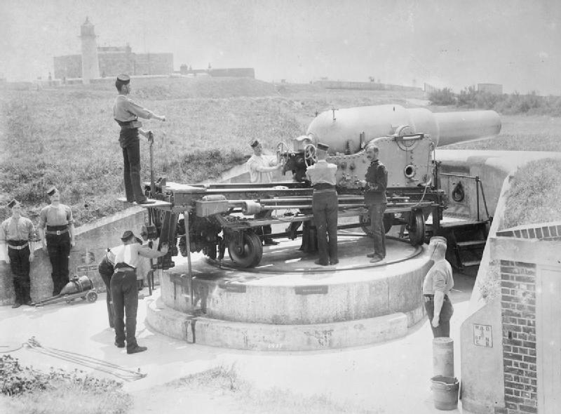 Symonds and Co Collection Royal Artillery, Southsea. Comment : The gun appears to be an RML 9 inch Mark III.